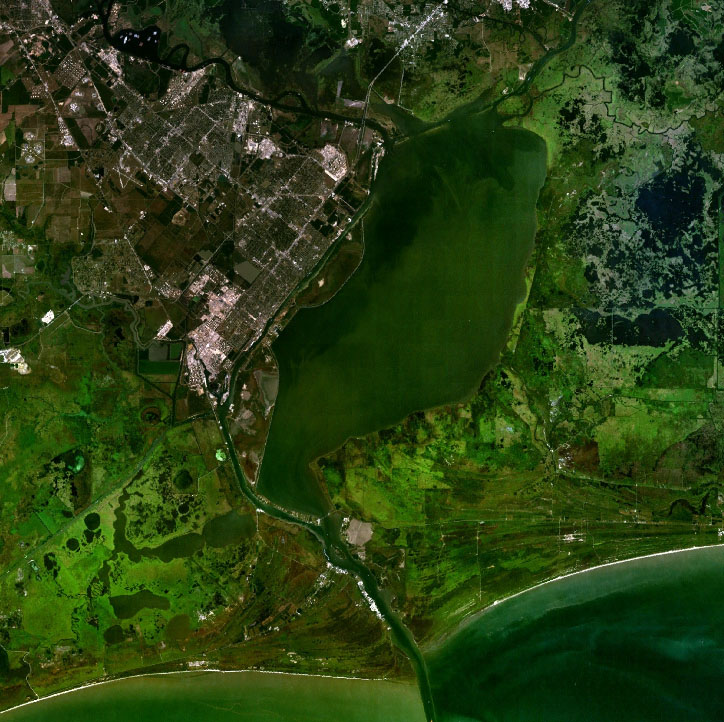 Sabine Lake as seen from space.